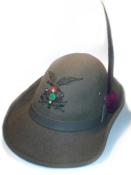 Cappello Alpino (Alpine hat) of an Engineer-Sapper of the Italian Army Alpini 2. Engineer Regiment.